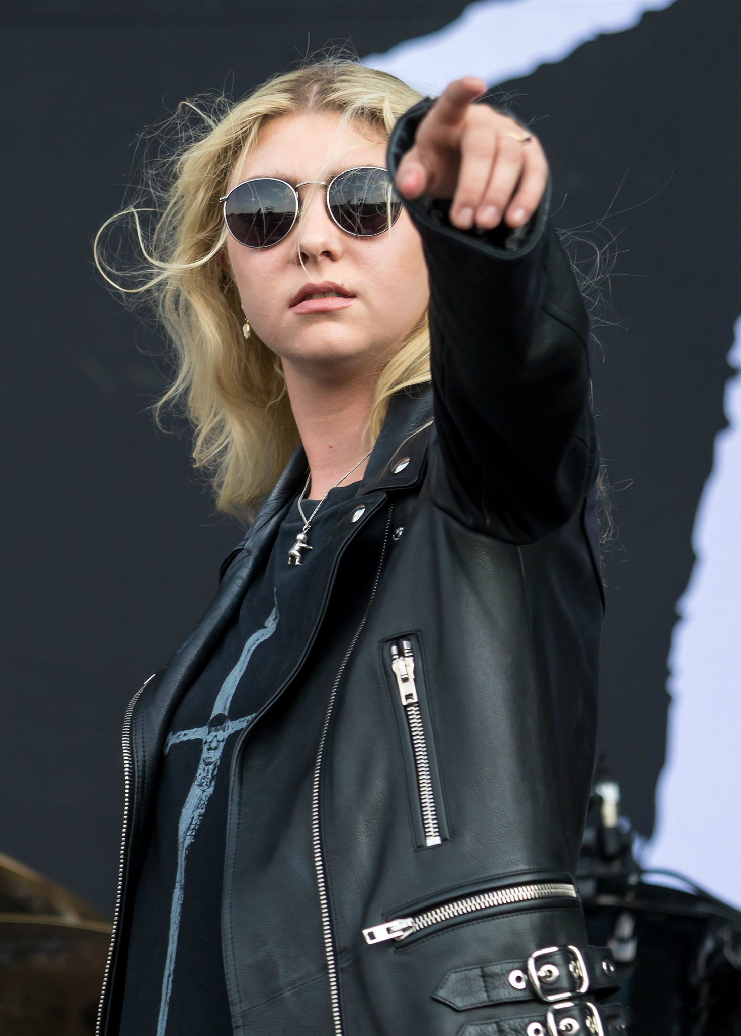 The Pretty Reckless performing at the River City Rockfest at the AT&T Center in San Antonio, Texas on May 27, 2017.